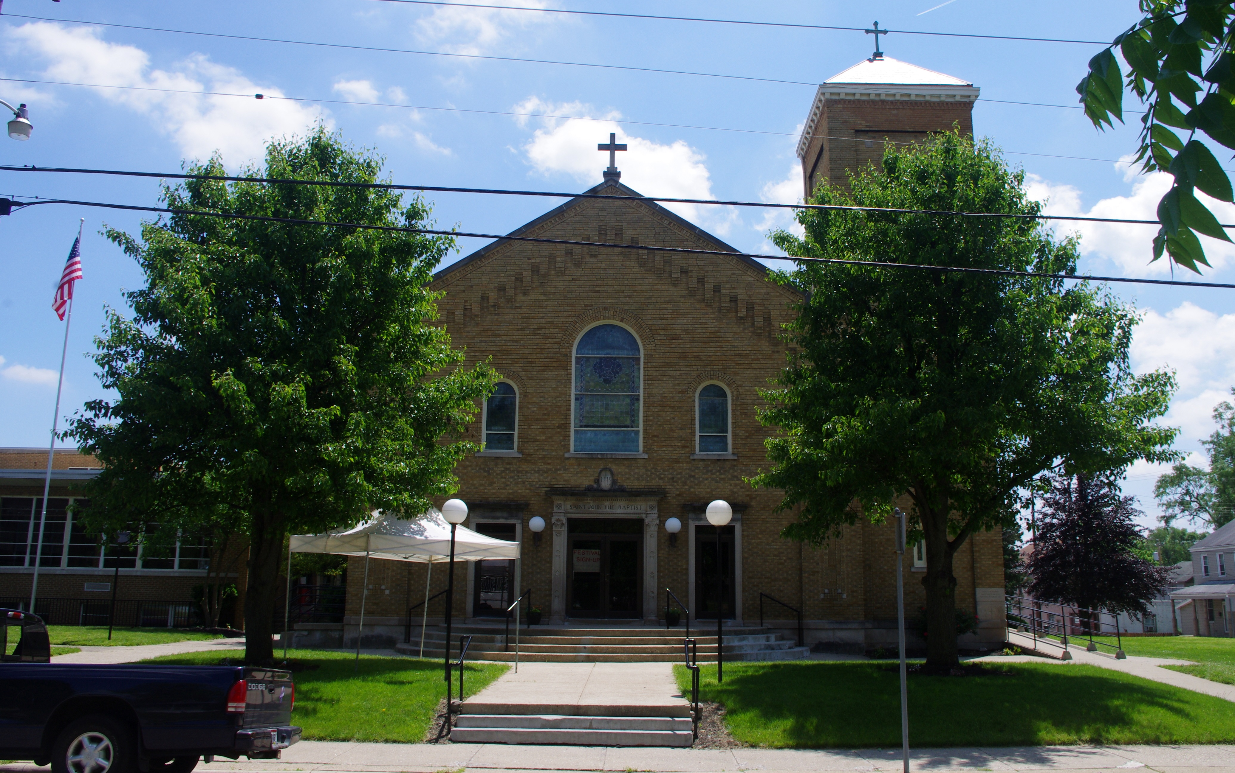 Saint John the Baptist Church (Harrison, Ohio) - exterior